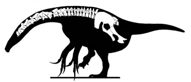 Skeletal reconstruction of Nanshiungosaurus.